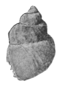 Photo of an lateral view of the shell of Teratobaikalia macrostoma. Locality: Byrkin.